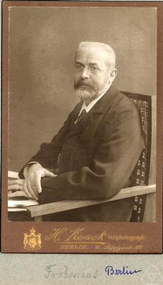 Photography of the mathematician Georg Frobenius